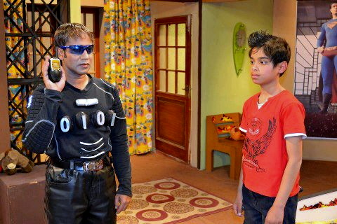 a Photo from Mobile Jin (Kids Drama Serial for PTV) Pakistan's Superhero